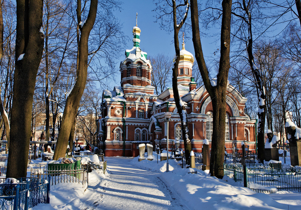 Church of Saint Alexander Nevsky, Minsk, Belarus